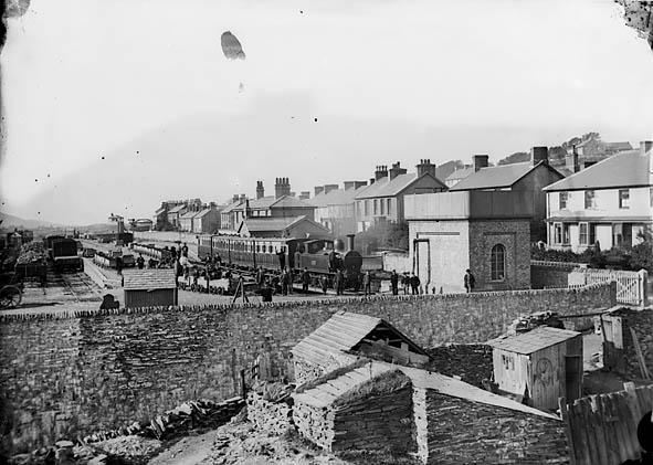 1 negative : glass, wet collodion, b&w ; 12 x 16.5 cm.